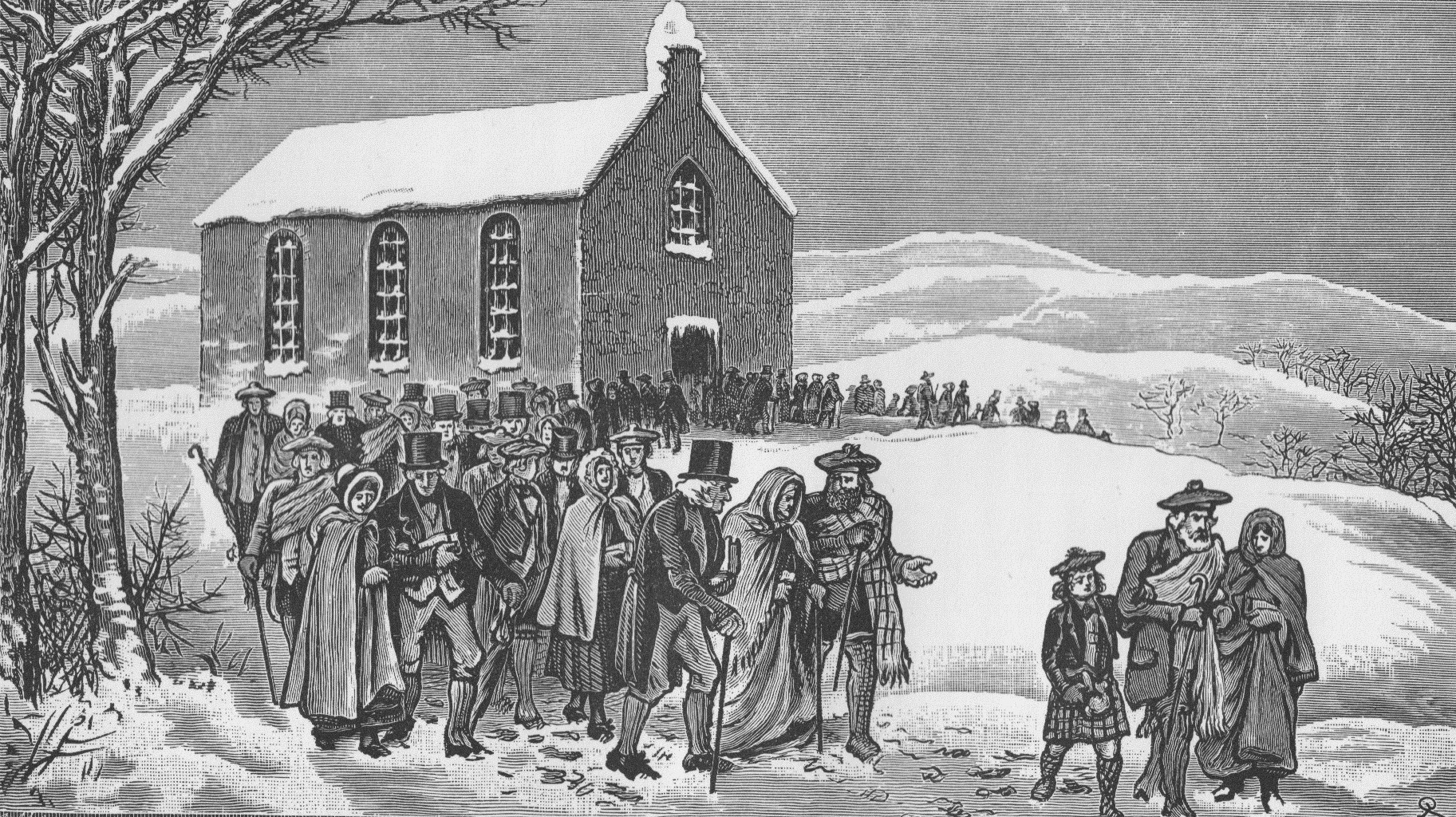 Parishioners in Marnoch, Strathbogie, stage the first protest walk-out in the "Ten Years' Conflict" that culminated in the Disruption of 1843 and founding of the Free Church of Scotland. They were objecting to the "intrusion" (imposition) of a new minister against the wishes of the congregation.